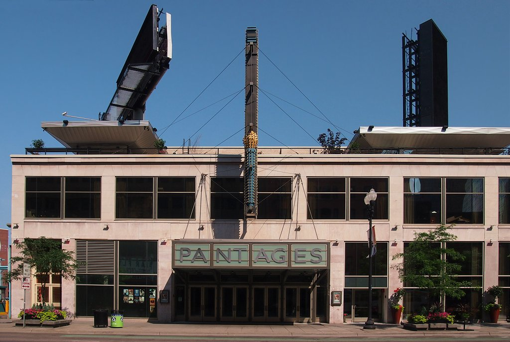 Entrance of the Pantages Theatre, 710 Hennepin Ave, Minneapolis, Minnesota, USA. Viewed from the southeast.